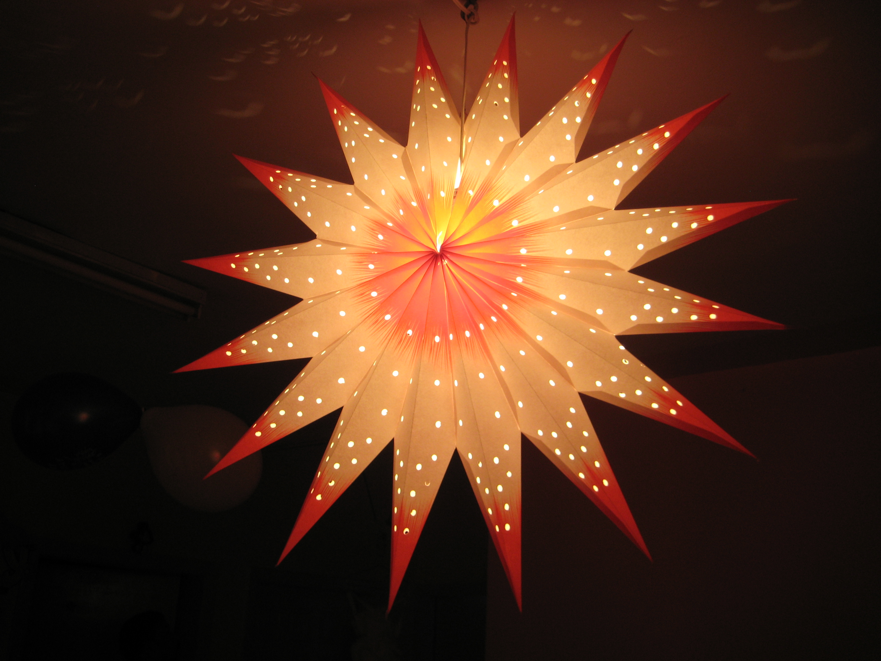 Christmas Star X'mas is widely celebrated in Kerala as well. Every homes will be decorated with star during X'mas season.